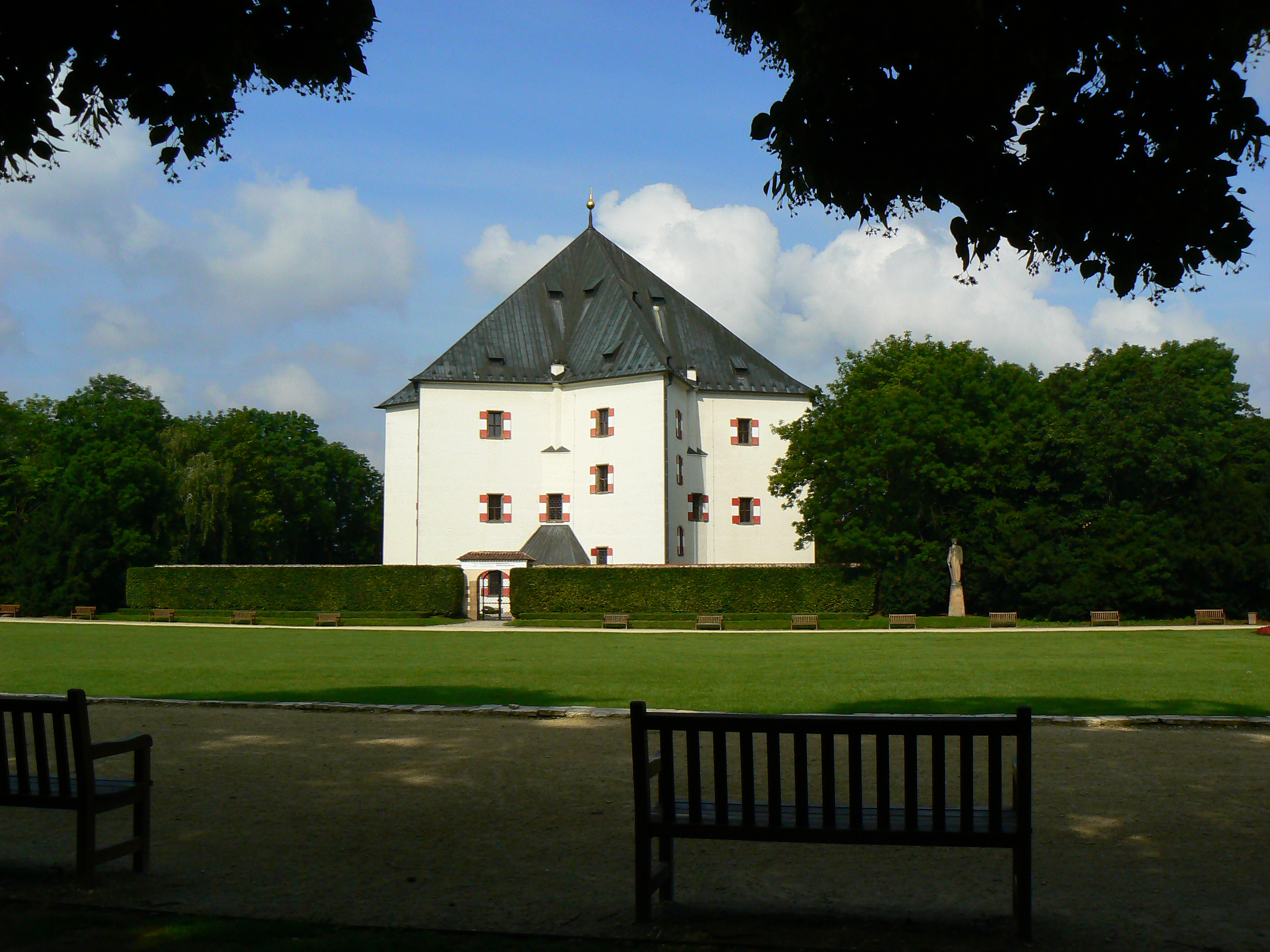 Summer Palace Hvězda, Prague, Czech Republic